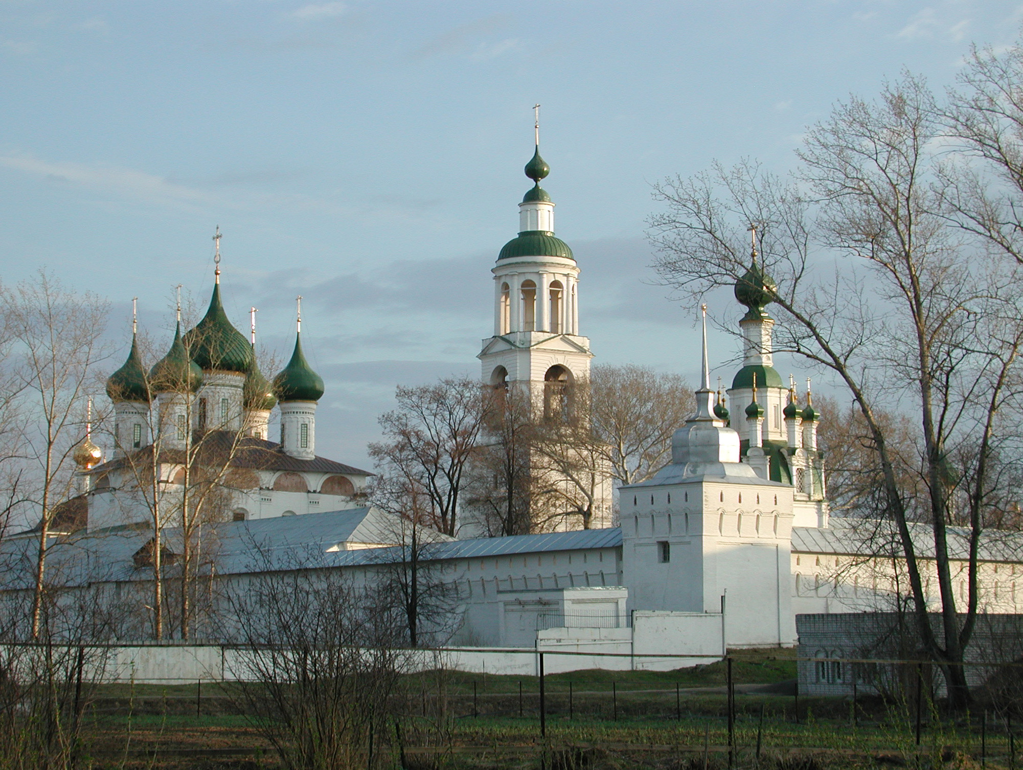 Tolga monastery near Yaroslavl, Russia